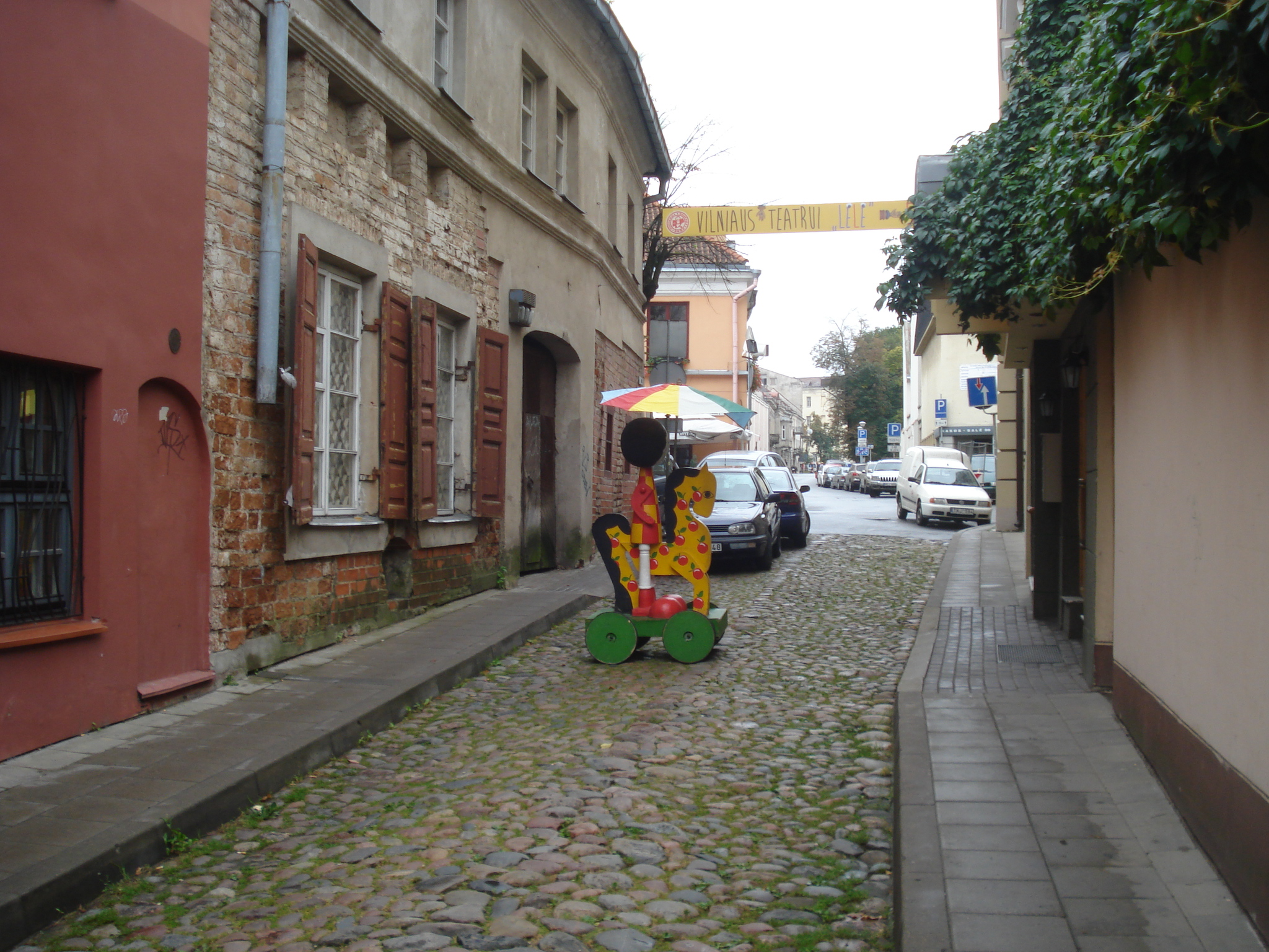 Arklių Street in Vilnius